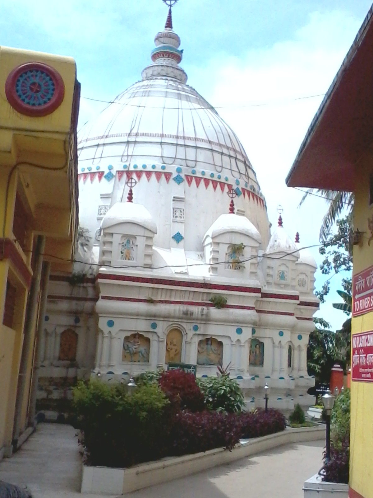 Took this Photograph during a visit to the Temple in 14 August, 2012, Panbazaar, Guwahati